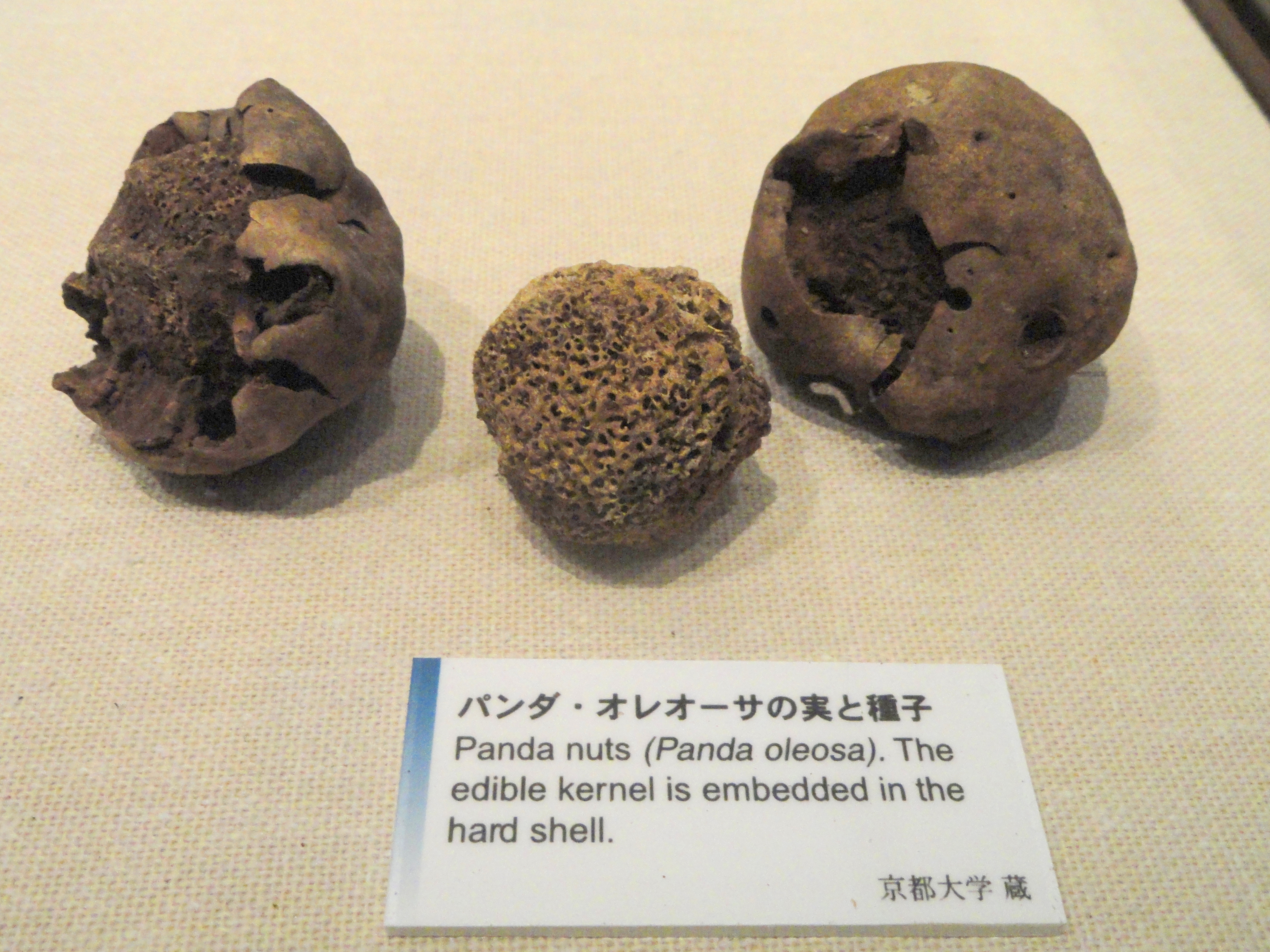 Exhibit in the Kyoto University Museum, Kyoto, Japan.